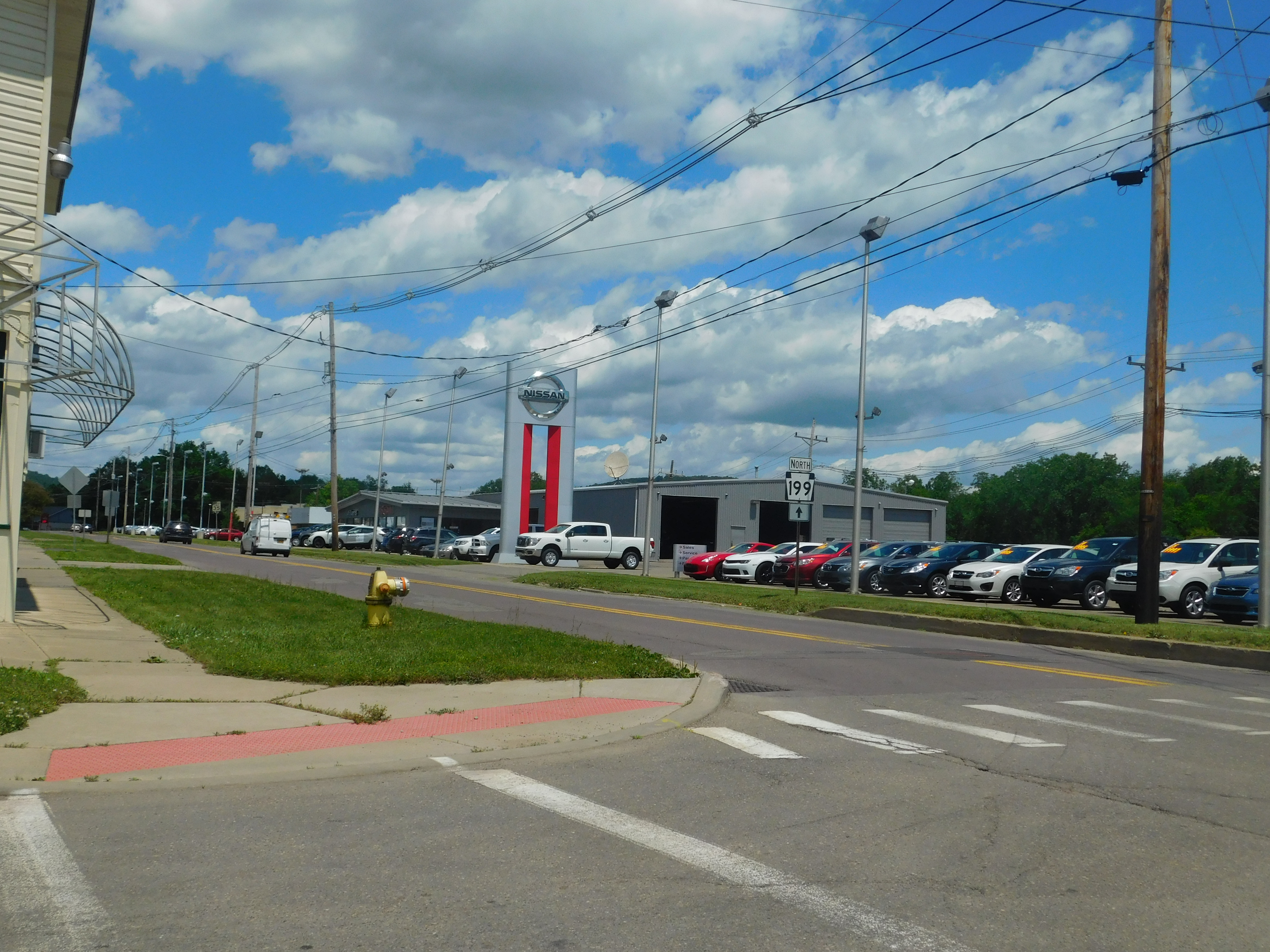 PA 199 in Sayre, Pennsylvania.